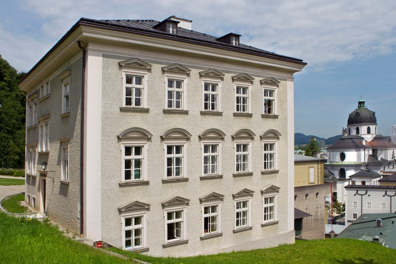 Das Edith Stein Haus auf dem Salzburger Mönchsberg ist der Sitz des internationales forschungszentrum für soziale und ethische fragen (ifz)